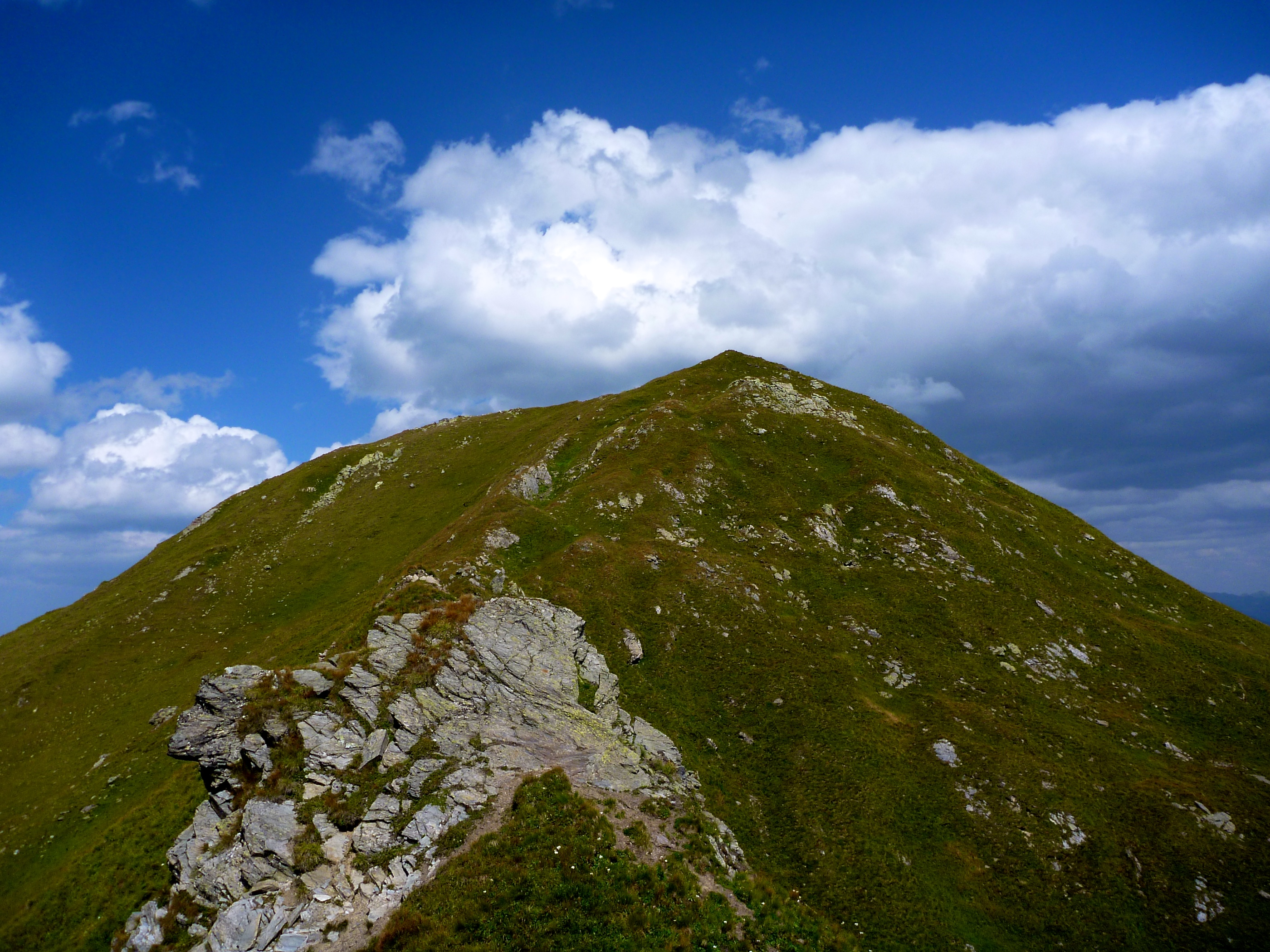 peak ridge of Plattenhorn, Arosa